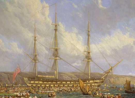 HMS Bellerophon anchored in Plymouth Sound, with Napoleon Bonaparte aboard. Bonaparte had surrendered to Captain Frederick Lewis Maitland of the Bellerophon and been transported to England. Pictured are the crowds of people who came out in small boats to see the former emperor when he came out on deck, usually at 6.30pm each day. Also in the picture are the two frigates Eurotas and Liffey.